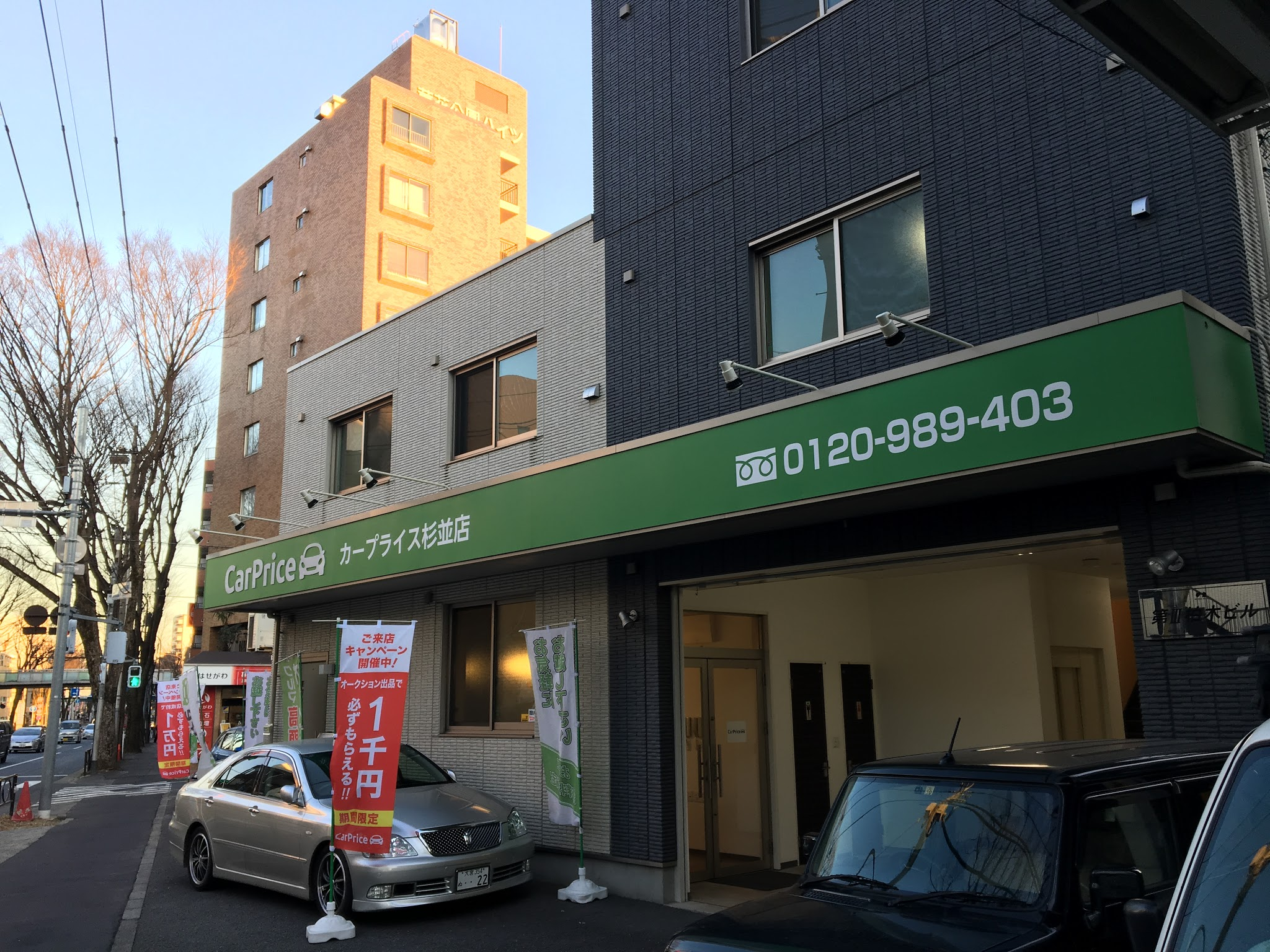 tokyo suginami building